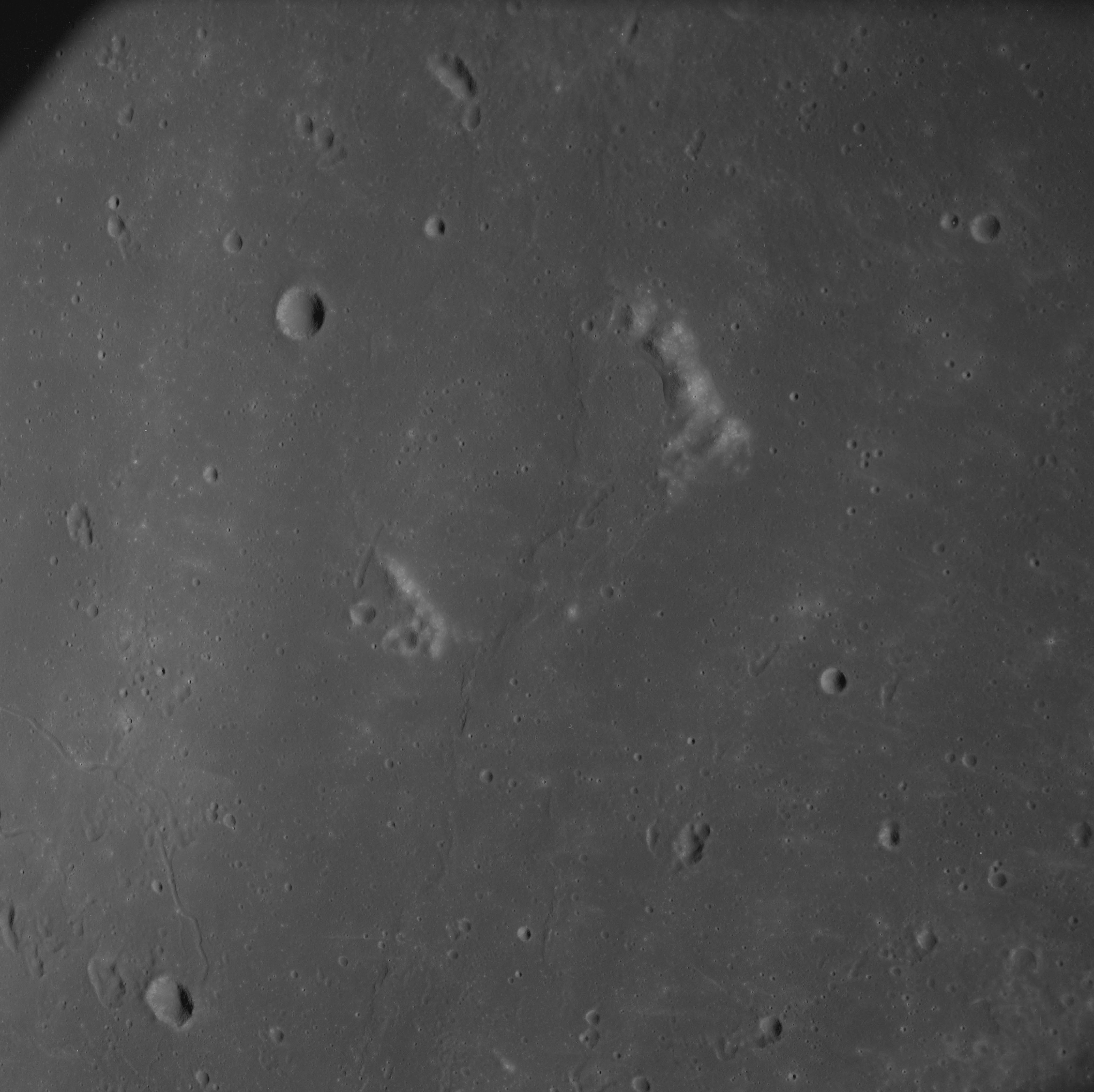 Boot Hill (upper right) and Duke Island (left of center), Mare Tranquillitatis, on the moon.